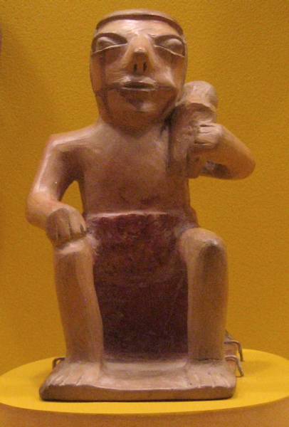 Colombia, Nariño, Capuli style Seated Coquero with Child, 850-1500 A.D. Ceramic, Black, red, and cream resist painted ceramic, Height: 7 7/8 in. (20.00 cm); Width: 4 5/8 in. (11.75 cm); Depth: 4 7/8 in. (12.38 cm) The Muñoz Kramer Collection, gift of Camilla Chandler Frost and Stephen and Claudia Muñoz-Kramer (M.2007.146.1) Wikipedia Loves Art at the Los Angeles County Museum of Art This photo of item # M.2007.146.1 at the Los Angeles County Museum of Art was contributed under the team name "artifacts" as part of the Wikipedia Loves Art project in February 2009. Los Angeles County Museum of Art The original photograph on Flickr was taken by Beesnest McClain—please add a comment to the original Flickr page whenever a use has been made on Wikipedia or another project. Project galleries on Flickr: this institution, this team